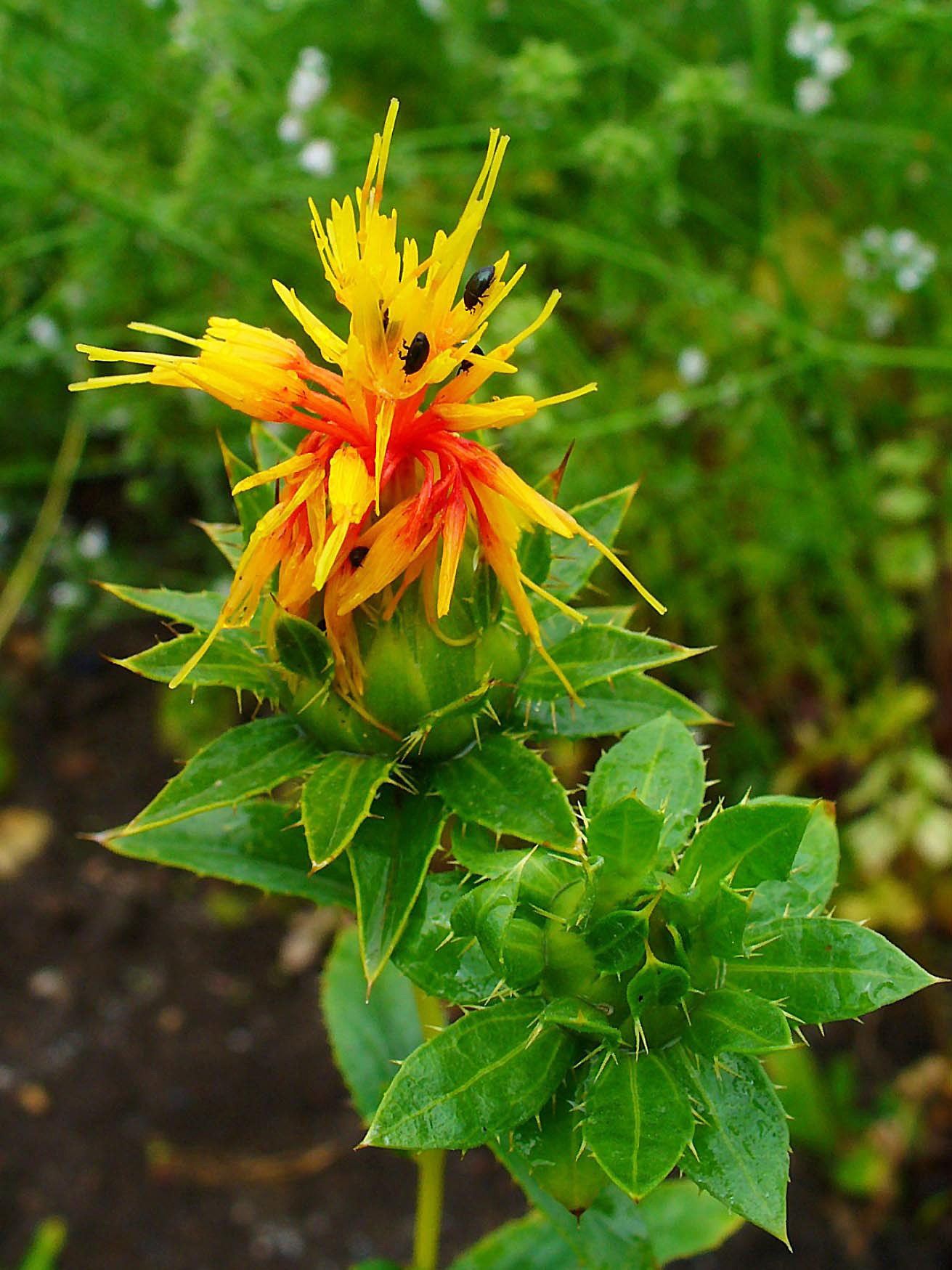 Carthamus tinctorius, Asteraceae, Safflower, inflorescence; Botanical Garden KIT, Karlsruhe, Germany.